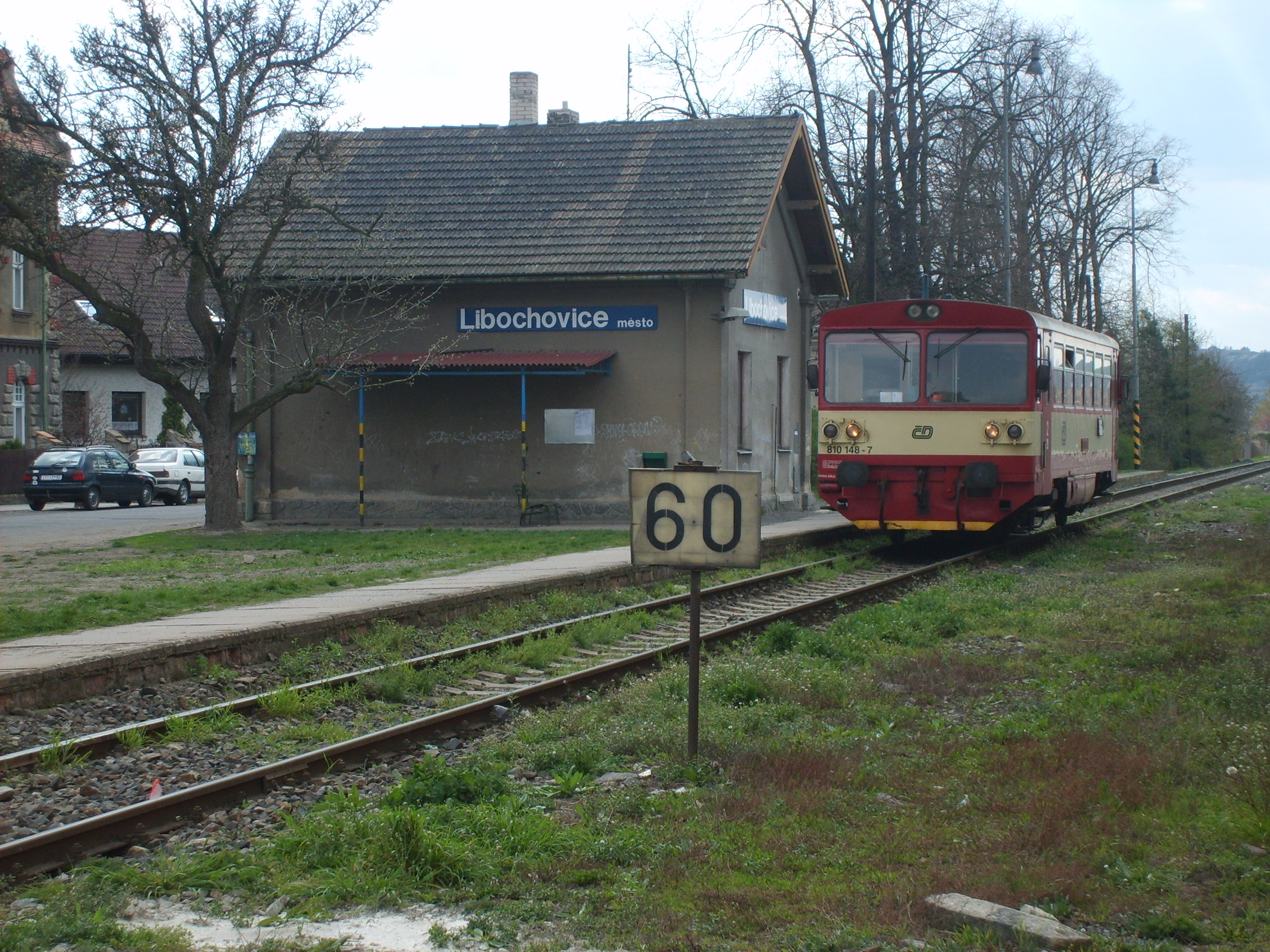 Railway station Libochovice-City